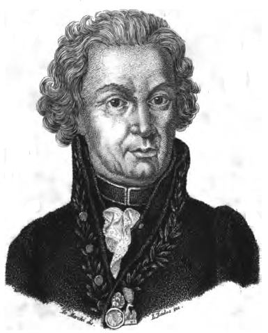 Lithography of Carlo Amoretti